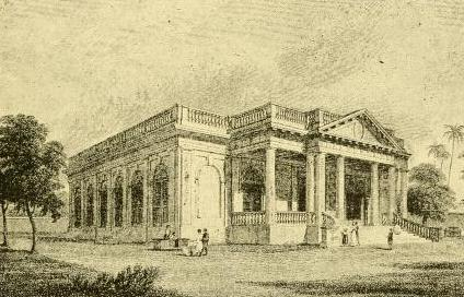 An engraving of St John's church, Trichinopoly (Tiruchirappalli), Southern India.